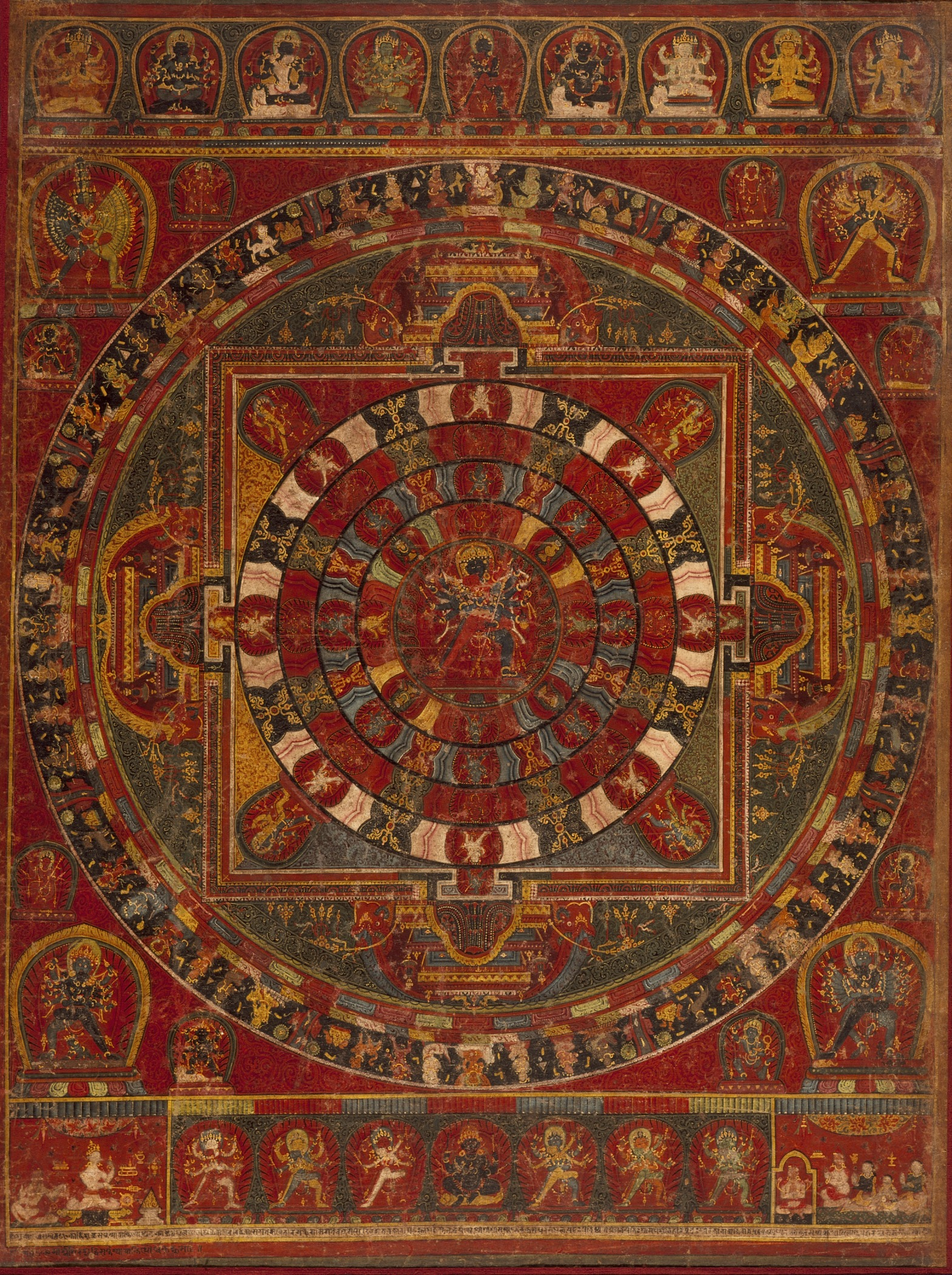 Nepal, Dated 1490 Paintings Mineral pigments on cotton cloth Museum Acquisition Fund (M.73.2.1) South and Southeast Asian Art